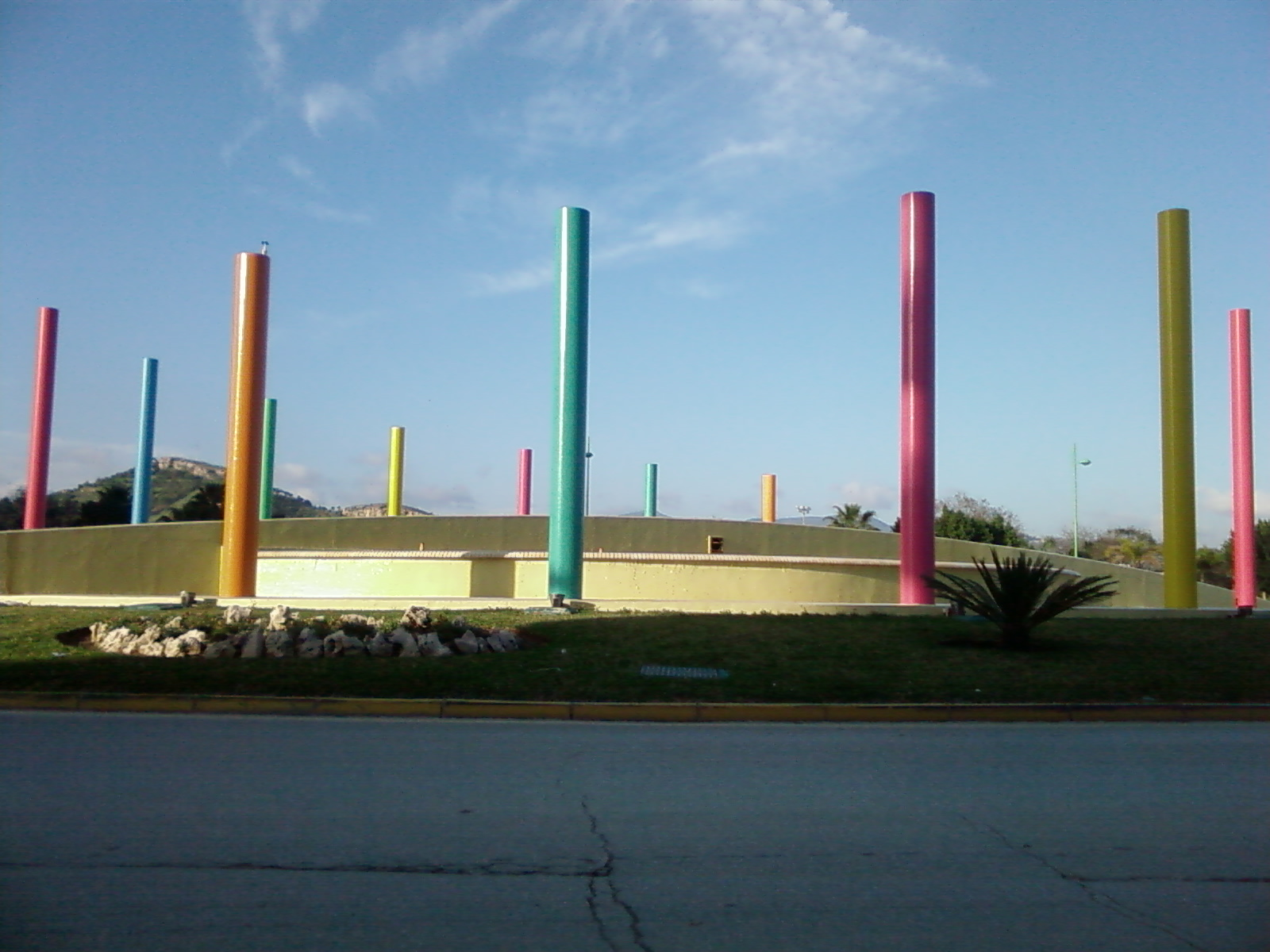 "The Colours Fountain", Plaza del Pintor Sandro Botticelli, Málaga, Spain